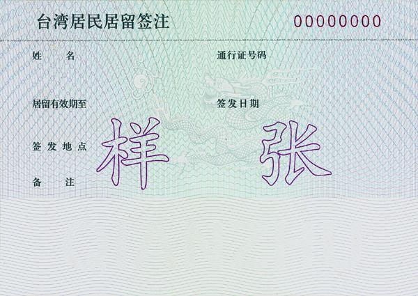 Residence endorsement of the Taiwan Compatriot Permit sample (abolished)